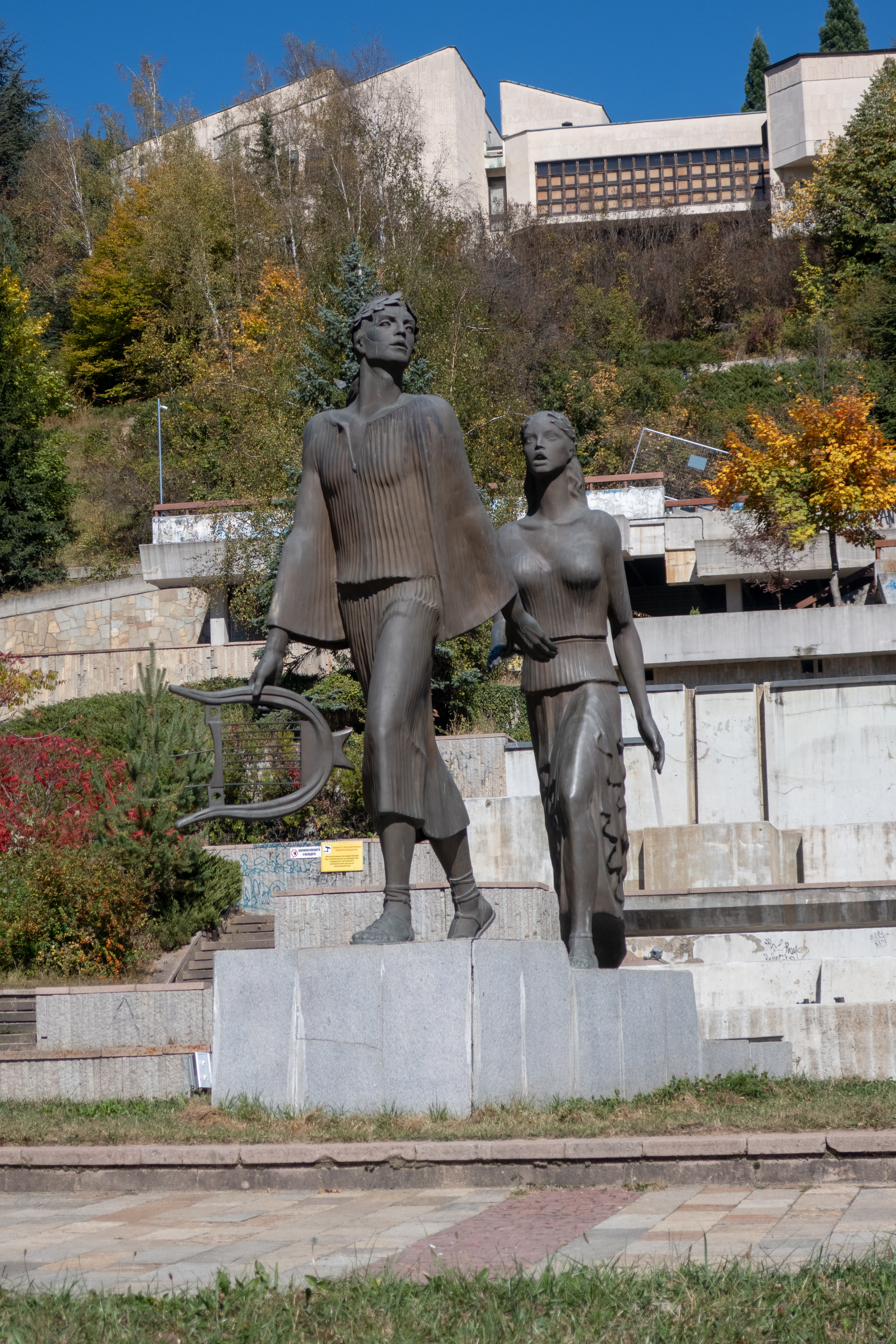 Smolyan